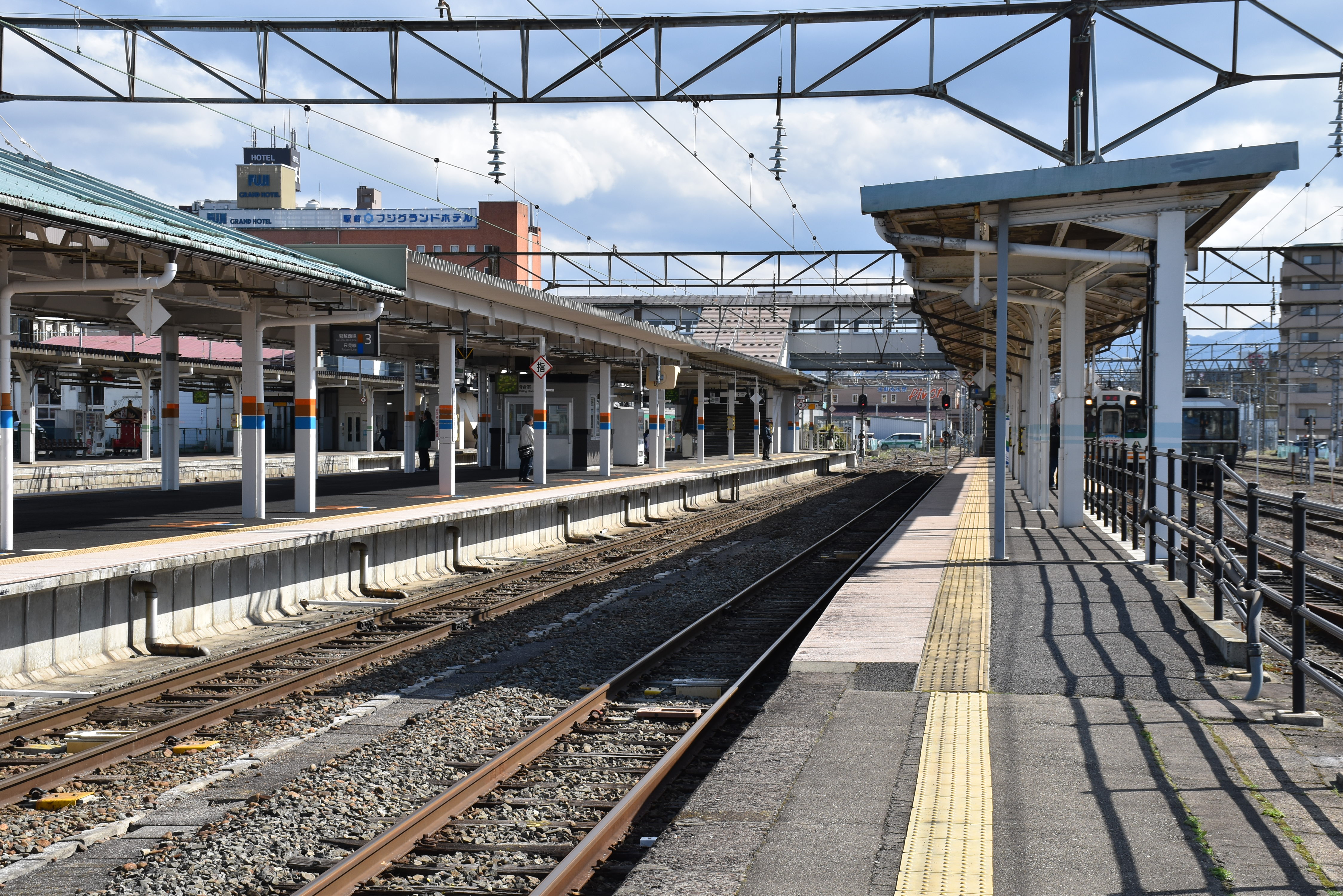 The platforms at Aizu-Wakamatsu Station in Fukushima Prefecture, Japan